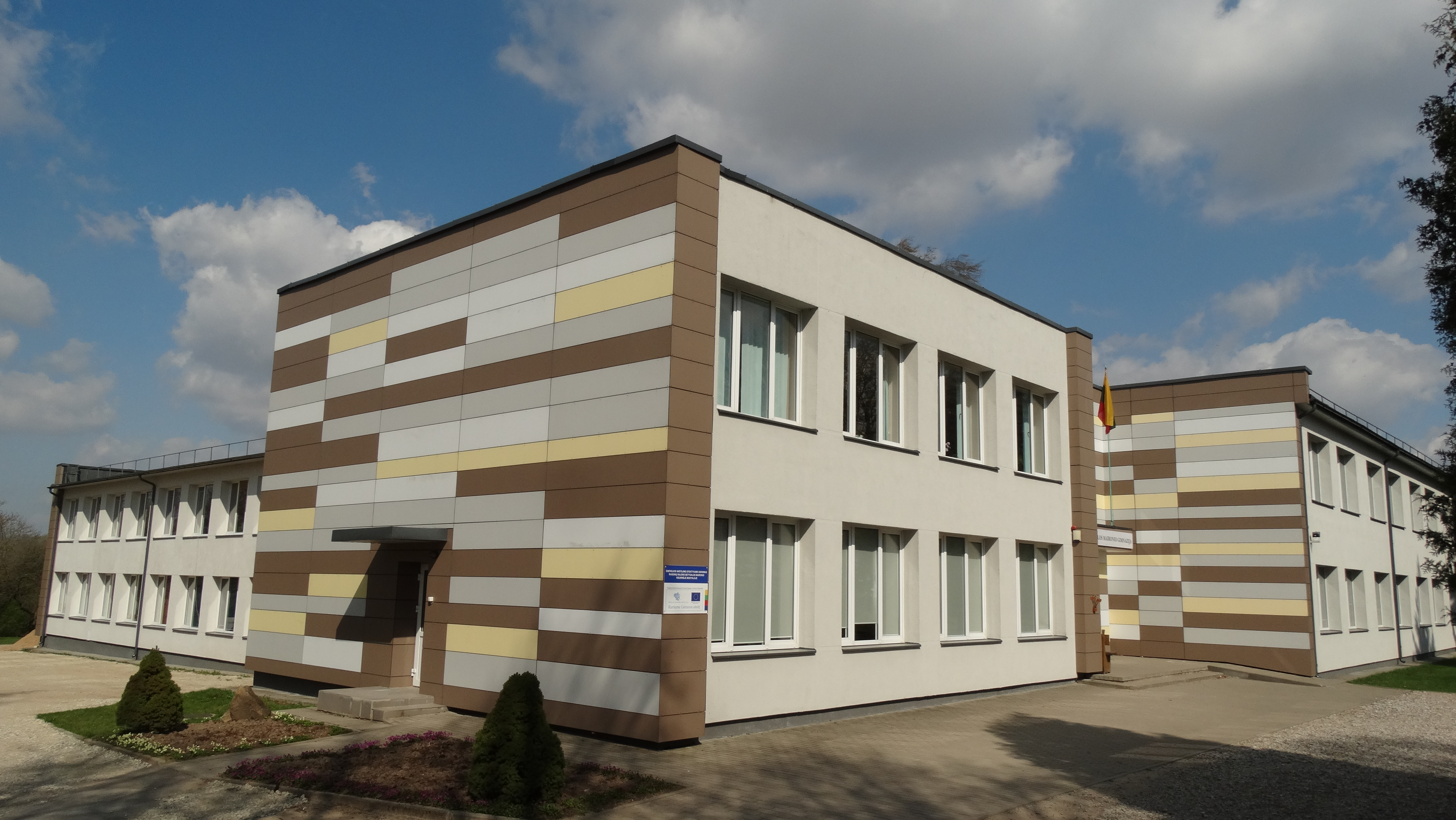 Gymnasium, Betygala, Raseiniai district, Lithuania